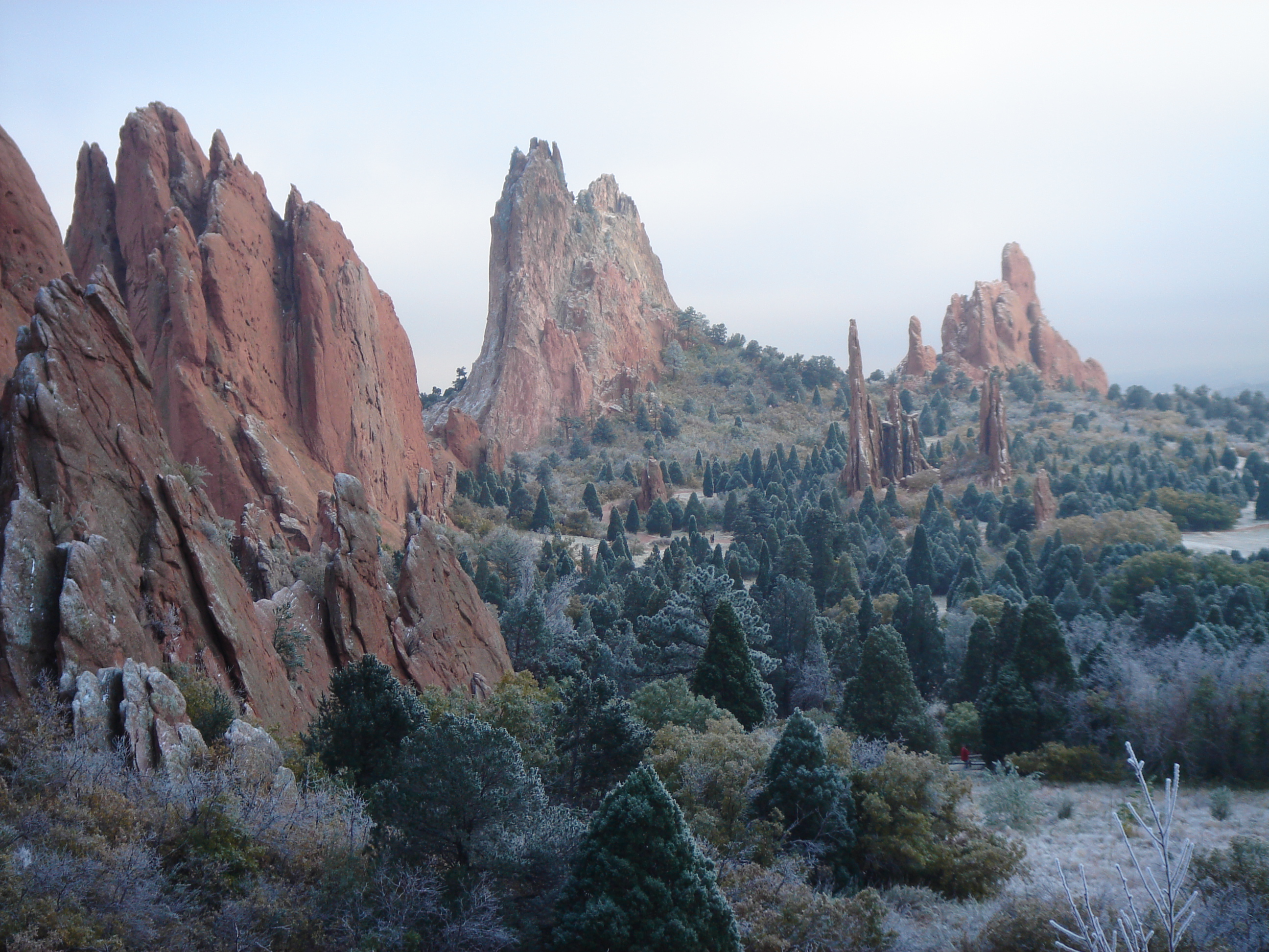 Garden of The Gods in frosted Oktober